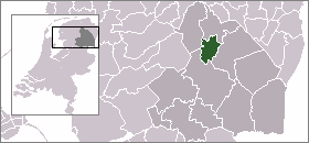 Location of Assen